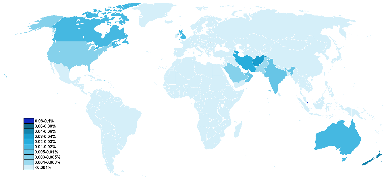 Map showing the distribution of Zoroastrianism in Modern Times.